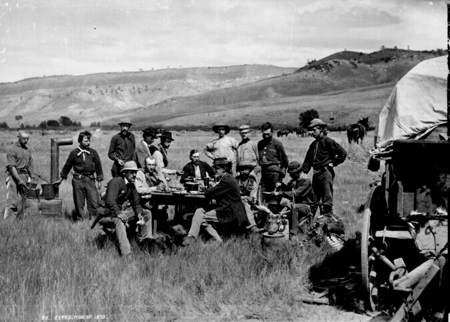 A noon meal in Ferdinand V. Hayden's camp of the U.S. Geological Survey. Red Buttes, Wyo. Terr., August 24, 1870. Hayden sits at far end of table in dark jacket; W. H. Jackson stands at far right. Figures are 1. F.V. Hayden, U.S. Geologist in Charge, 2. James Stevenson, 3. H.W. Elliot, 4. S.R. Gifford, guest, 5. J.H. Beaman, 6. C.S. Turnbull, 7 and 8. cooks, 9. Cyrus Thomas, 10. H.D. Schmidt, 11. C.P. Carrington, 12. L.A. Bartlett, 13. Raphael, hunter, 14. A.L. Ford, 15. W.H. Jackson. Natrona County, Wyoming.